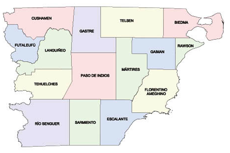 Political map of Chubut province (Argentina) showing its departments